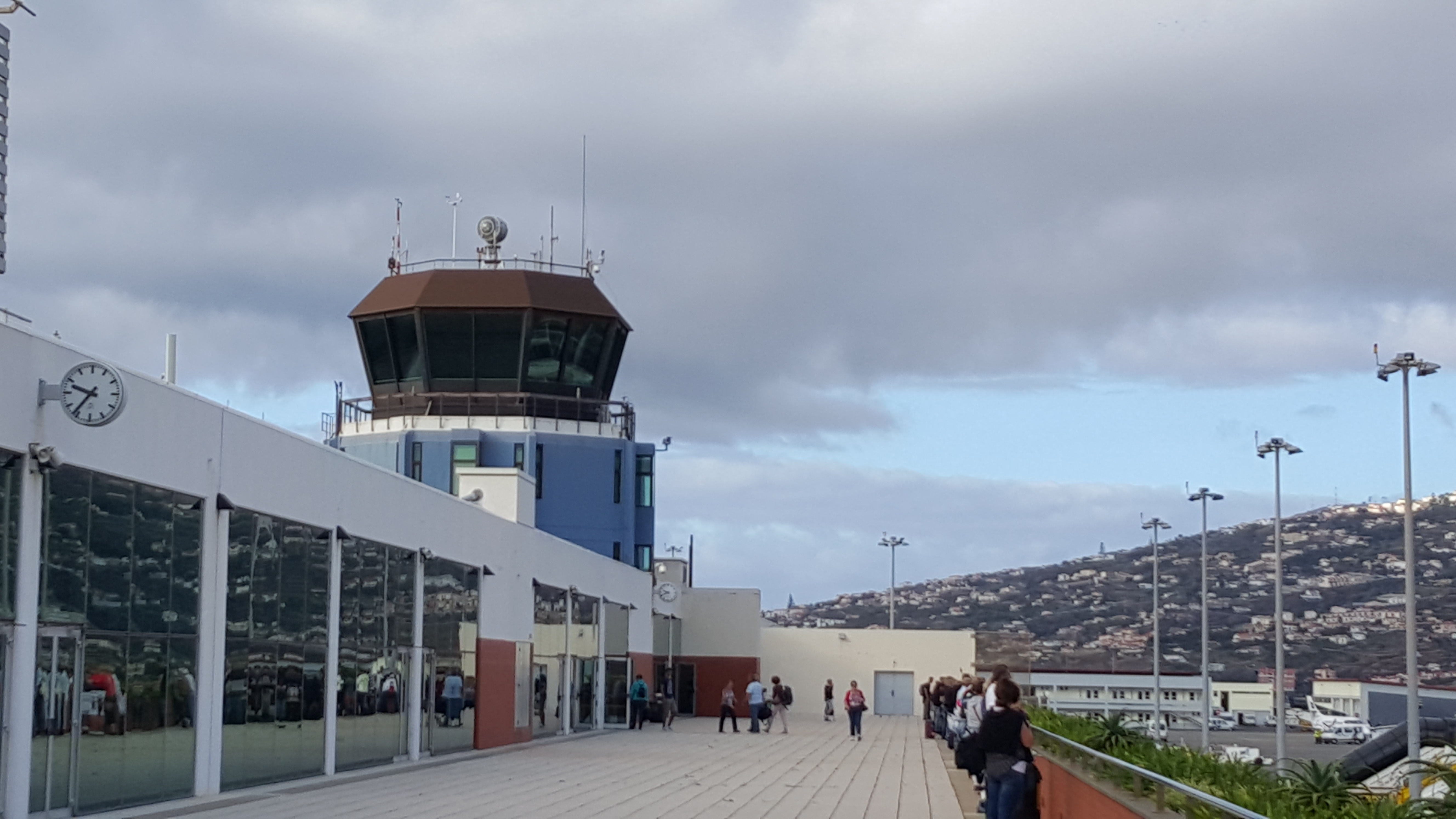 Airport: Terrace and control tower